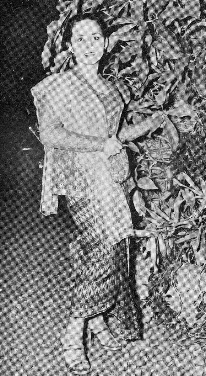 Indonesian film actress Ratna Ruthinah